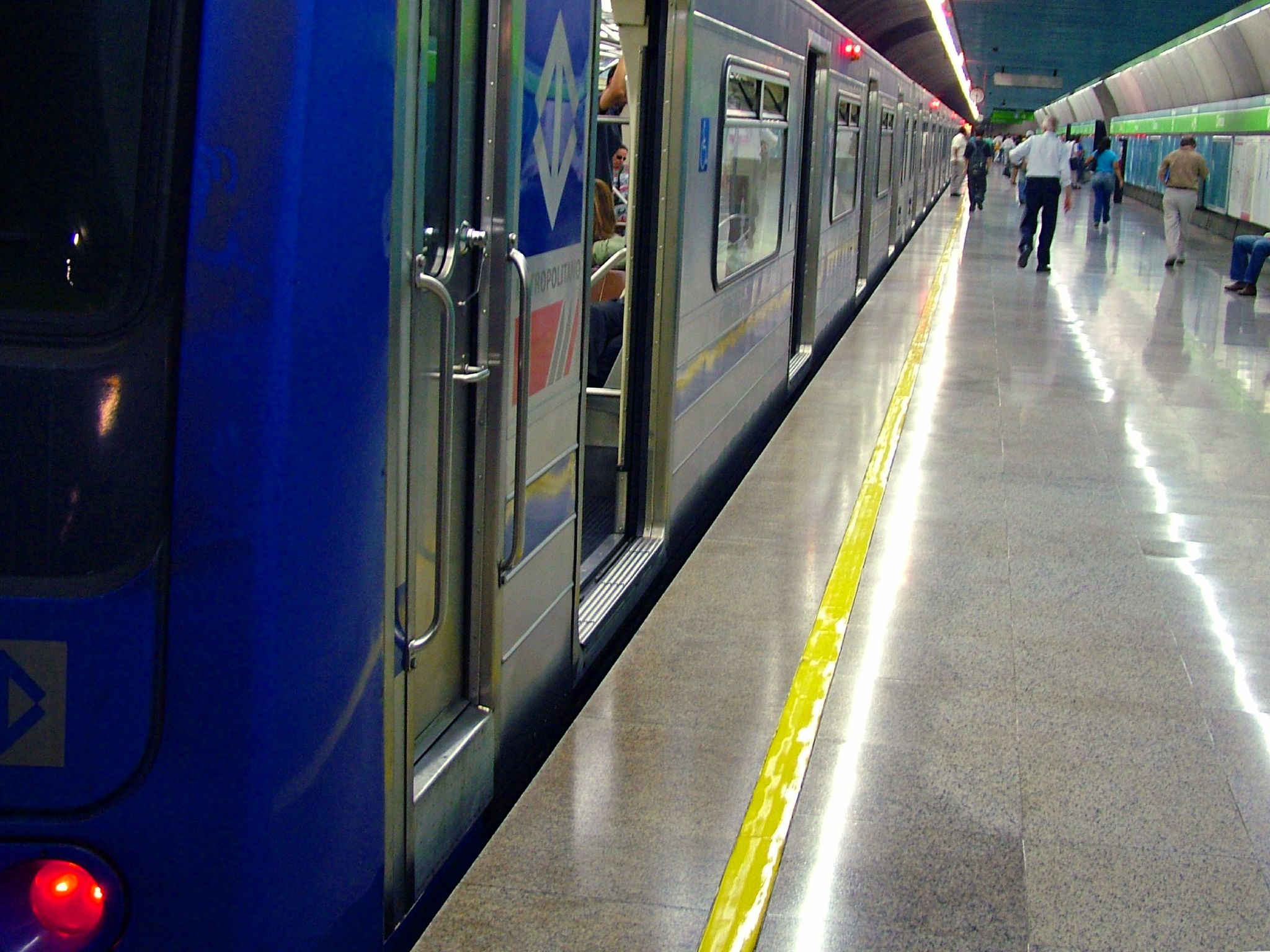 Subway station in São Paulo.Mêtro